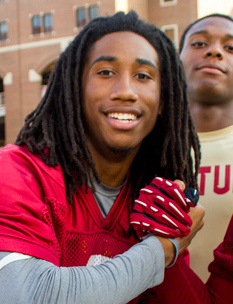 Florida State Seminoles defensive backs Ronald Darby (3), P.J. Williams (26) and another player outside the Albert J. Dunlap Athletic Training Facility football practice fields in Tallahassee, Florida on October 8, 2013.